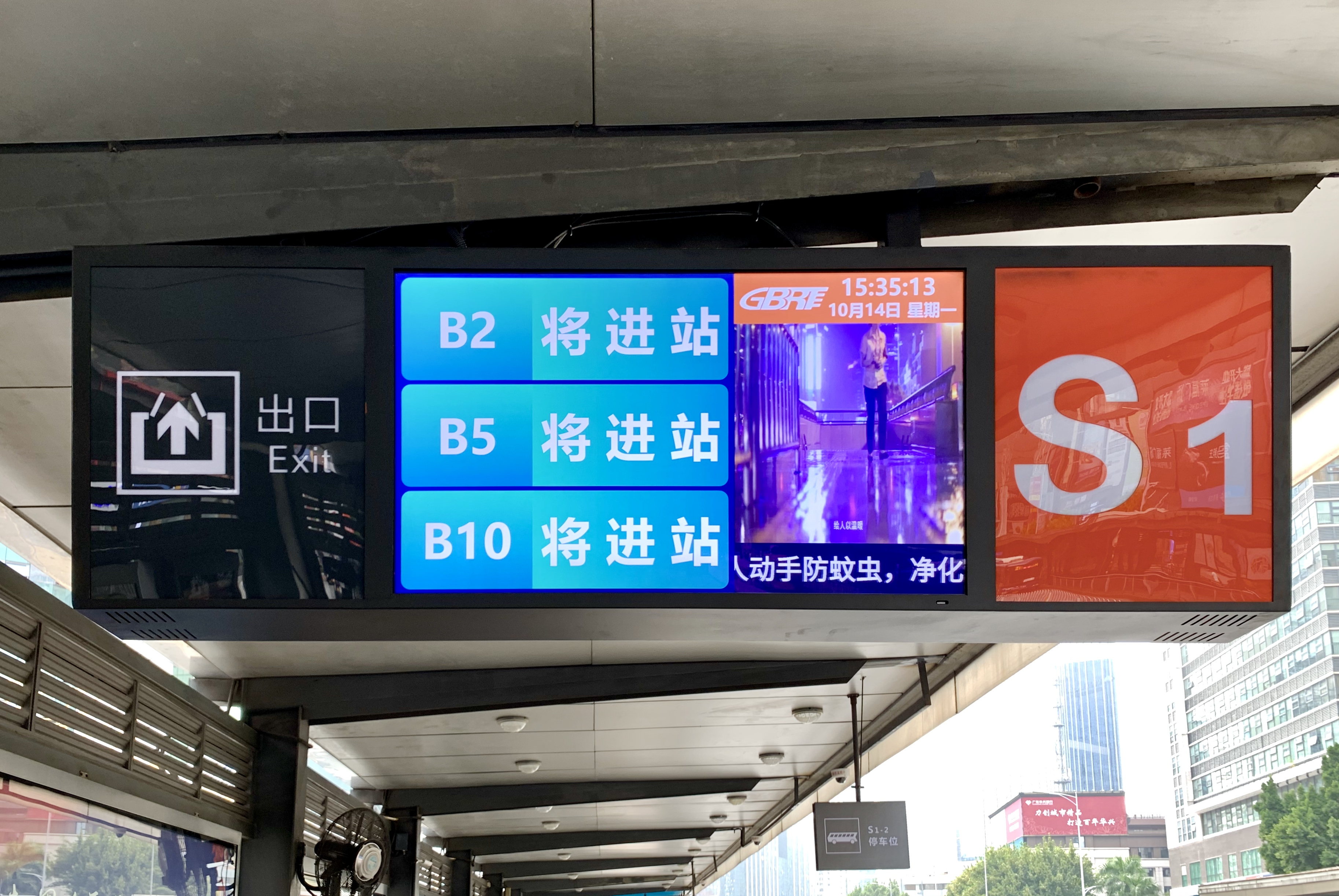 A screen in platform S1 of Guangzhou Bus Rapid Transit (GBRT)'s Gangding Station.